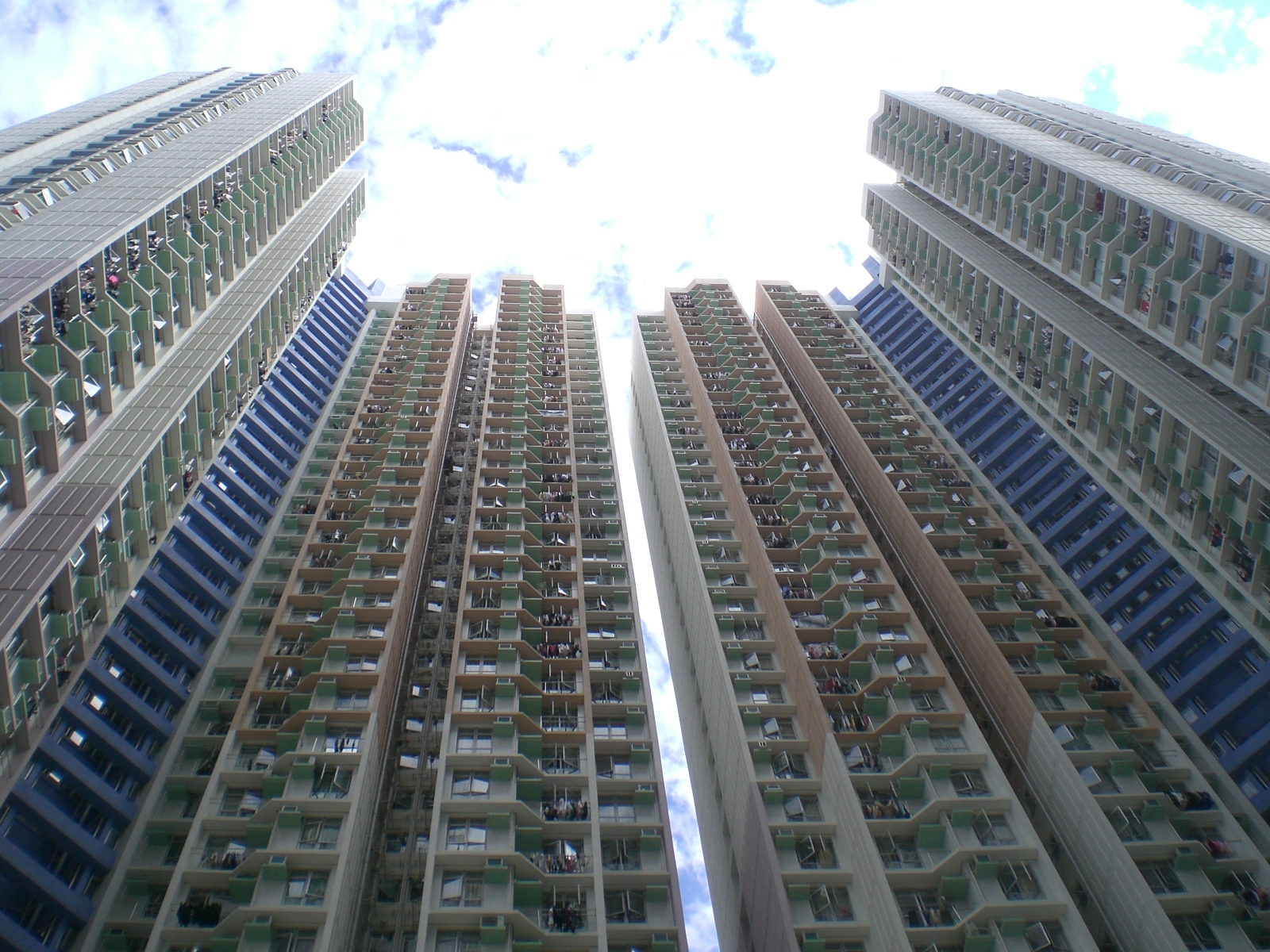 香港仔 石排灣邨